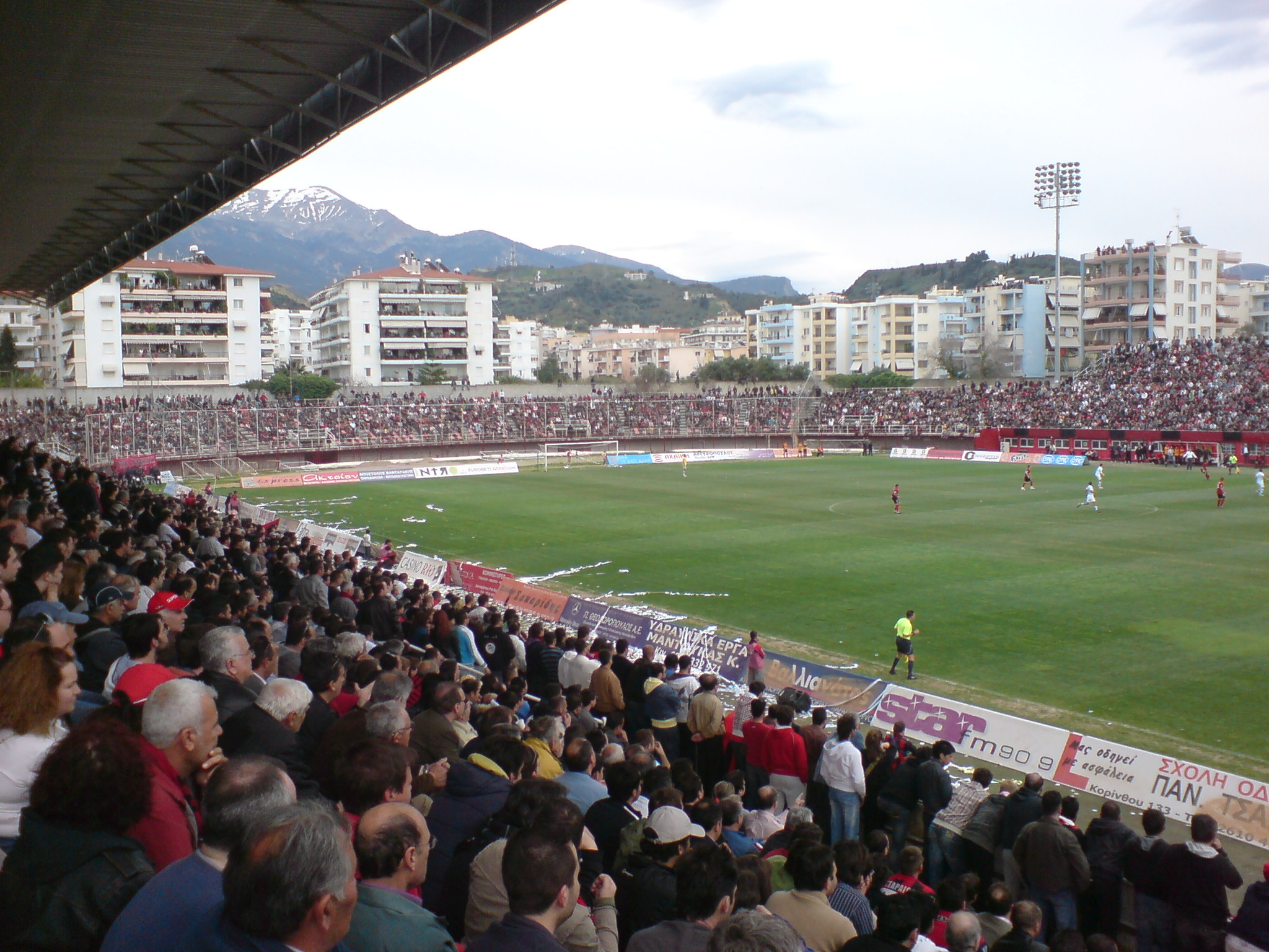 Panachaiki vs Rodos in a match for Gamma Ethniki (3rd Division), Kostas Davourlis Stadium, Patras 2009.